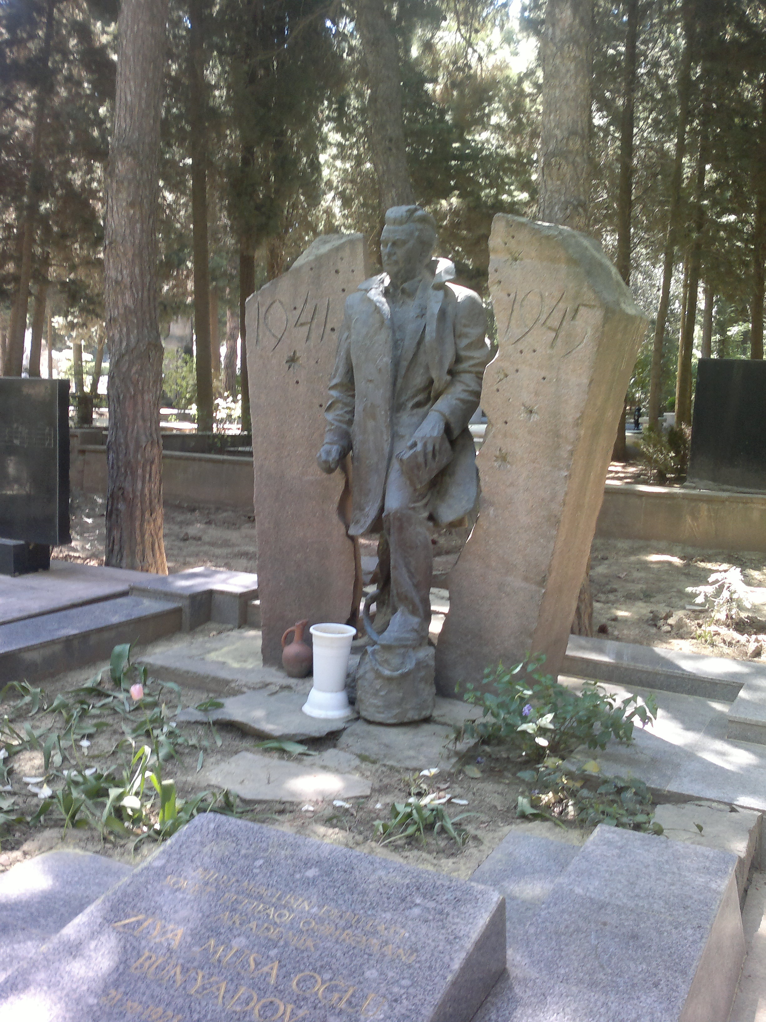 Burial of Ziya Bunyadov at Alley of Honor (Azerbaijan)